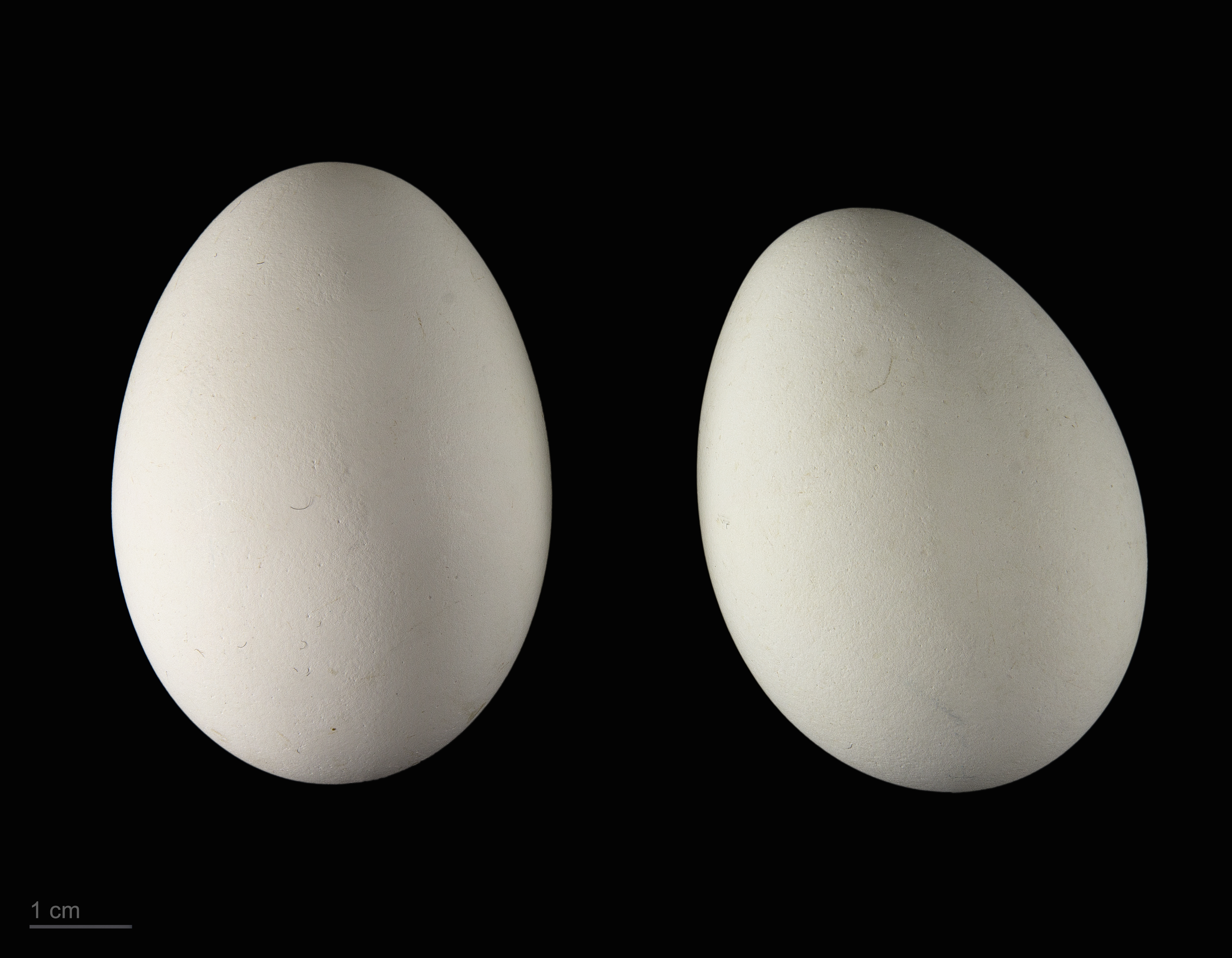 Eggs of dark chanting goshawk Two specimens of the same spawn ; collection of Jacques Perrin de Brichambaut.